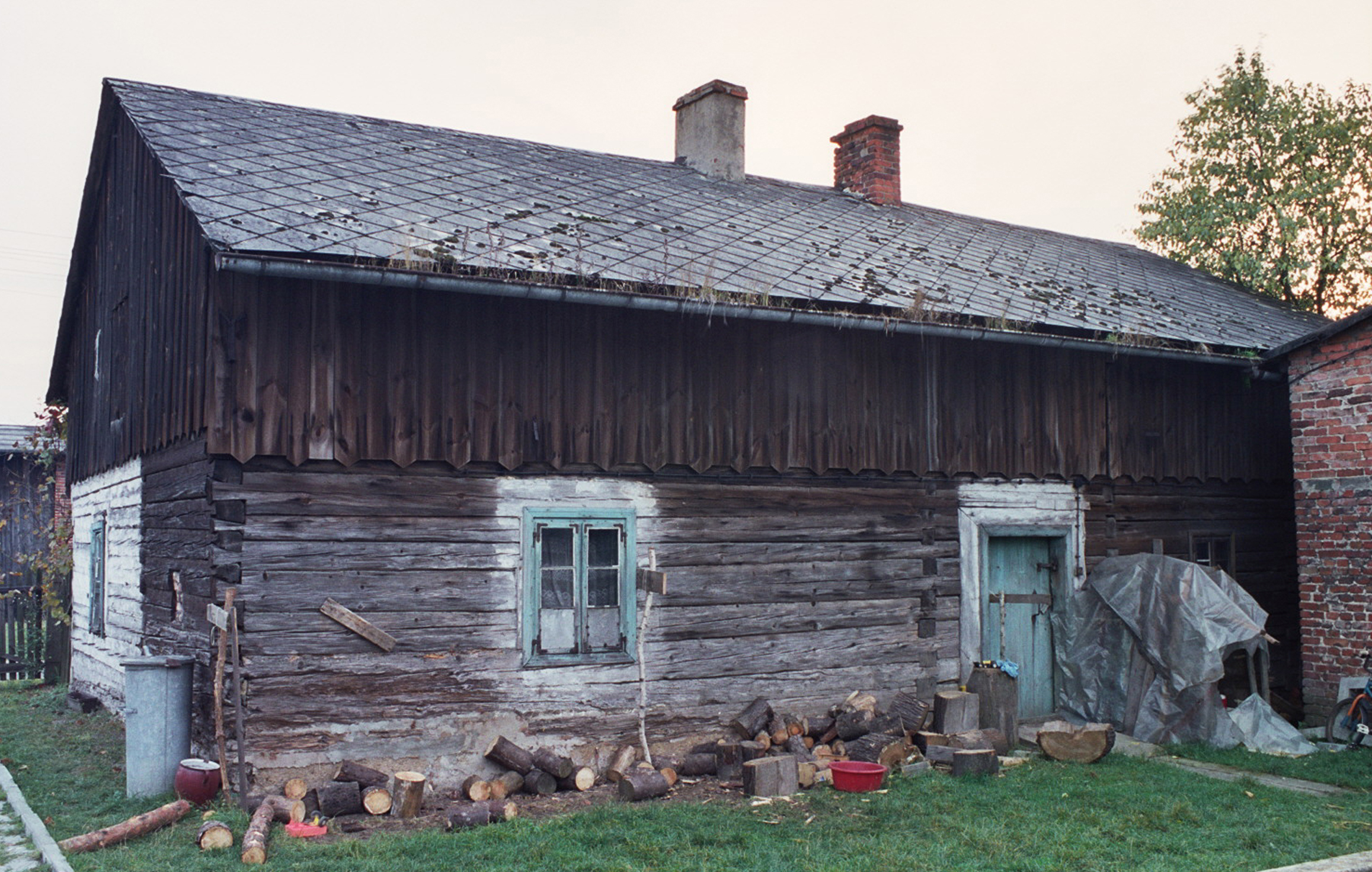 Author:Przykuta Date: November 2005